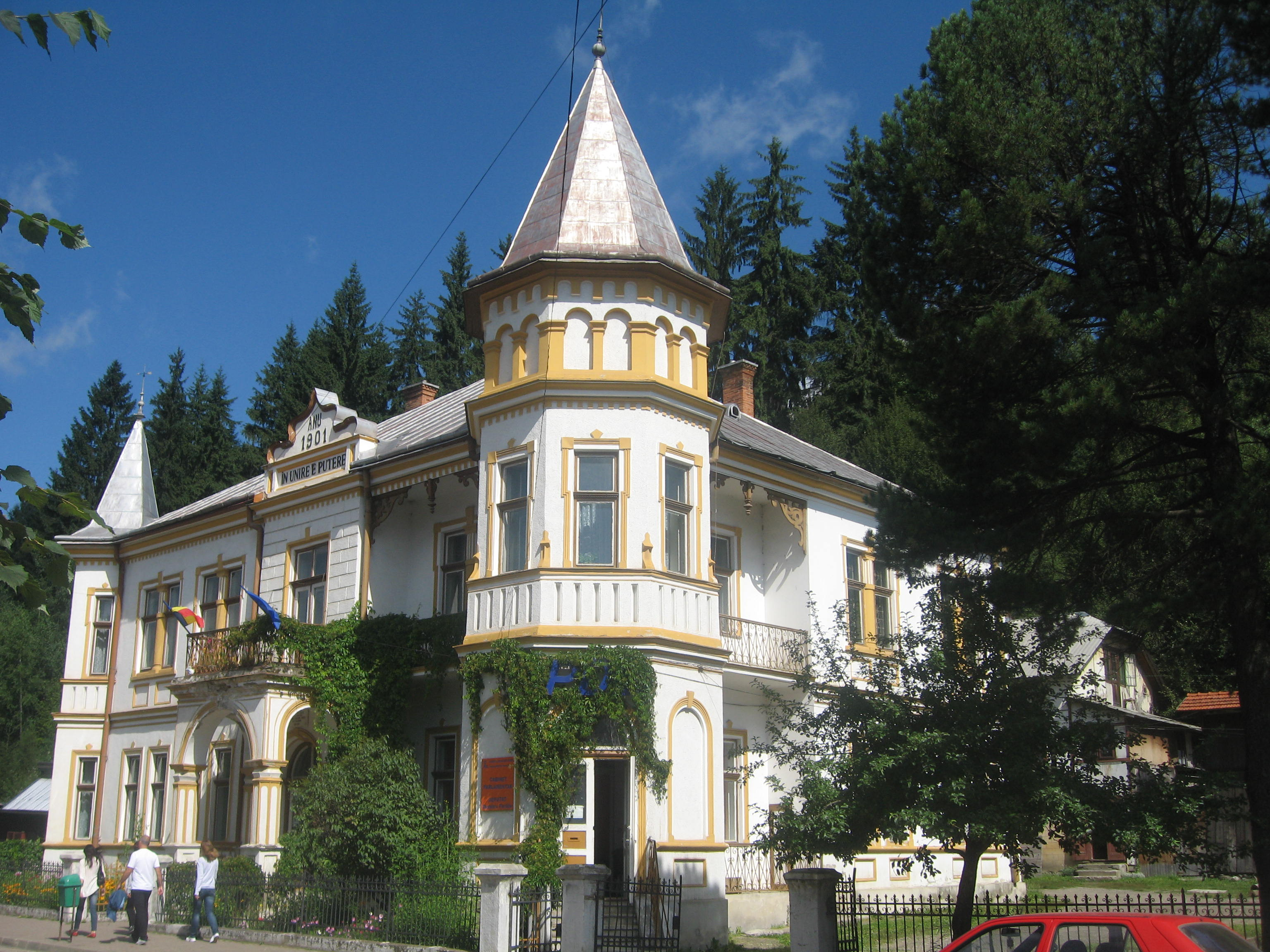 The City Library in Vatra Dornei, Romania, built in 1901